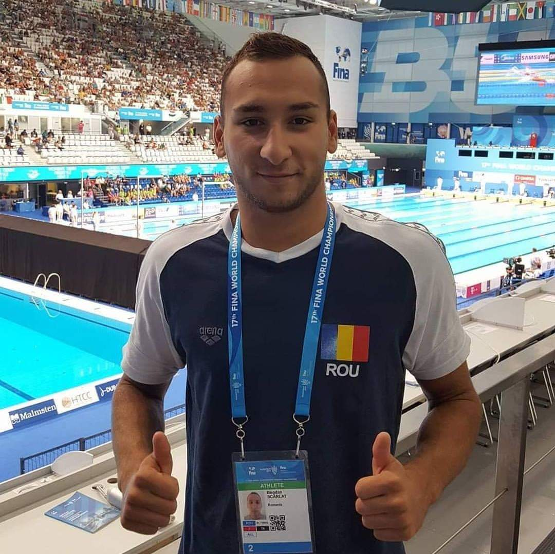 This image represent a Romanian swimmer